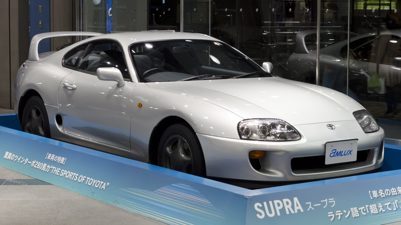 2nd generation Toyota Supra